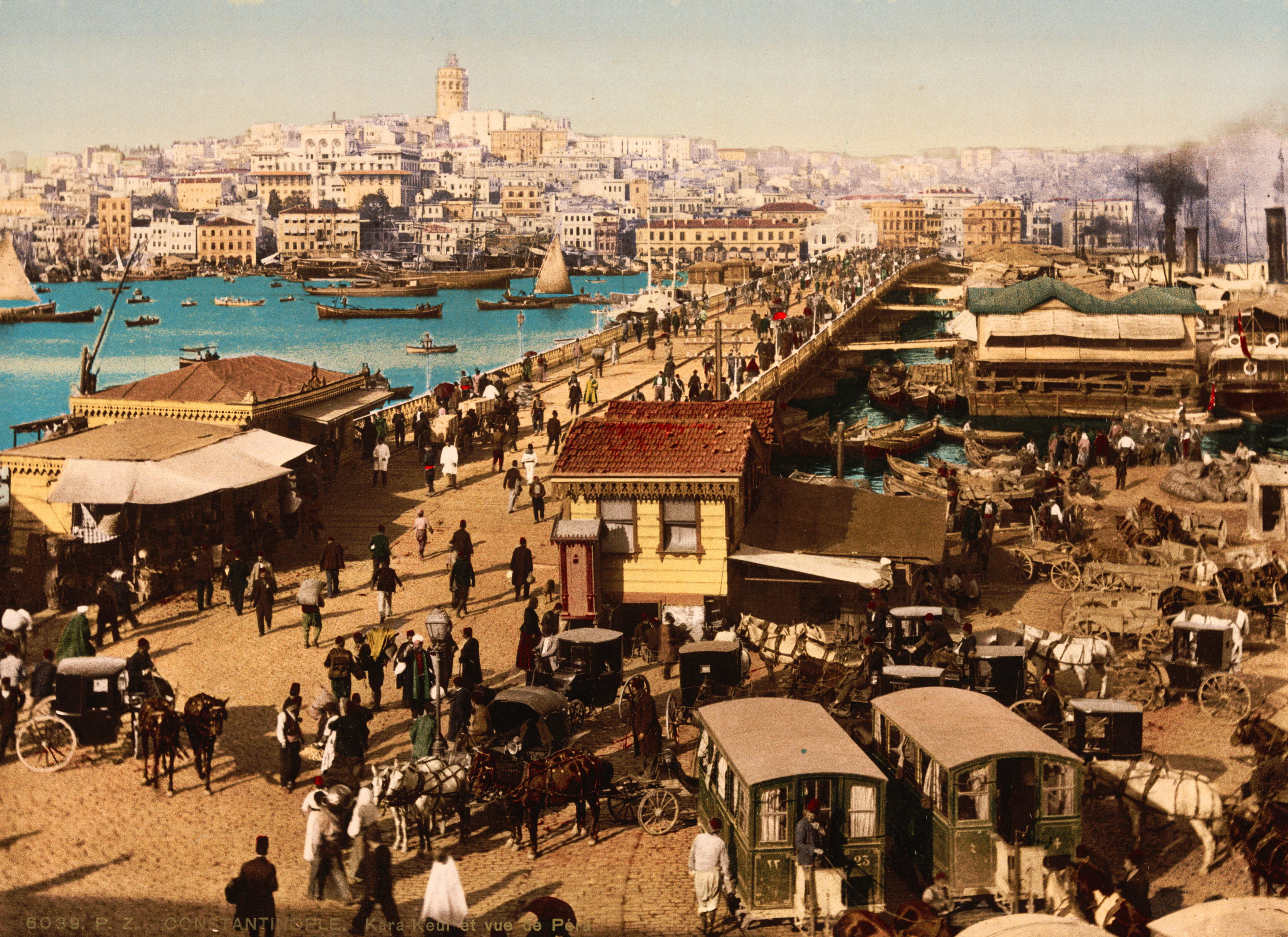 Constantinople et la Corne d'Or. The Galata Bridge in Istanbul. Photochrom print by Photoglob Zürich, between 1890 and 1900. From the Photochrom Prints Collection at the Library of Congress More photochroms from Turkey | More photochrom prints [PD] This picture is in the public domain